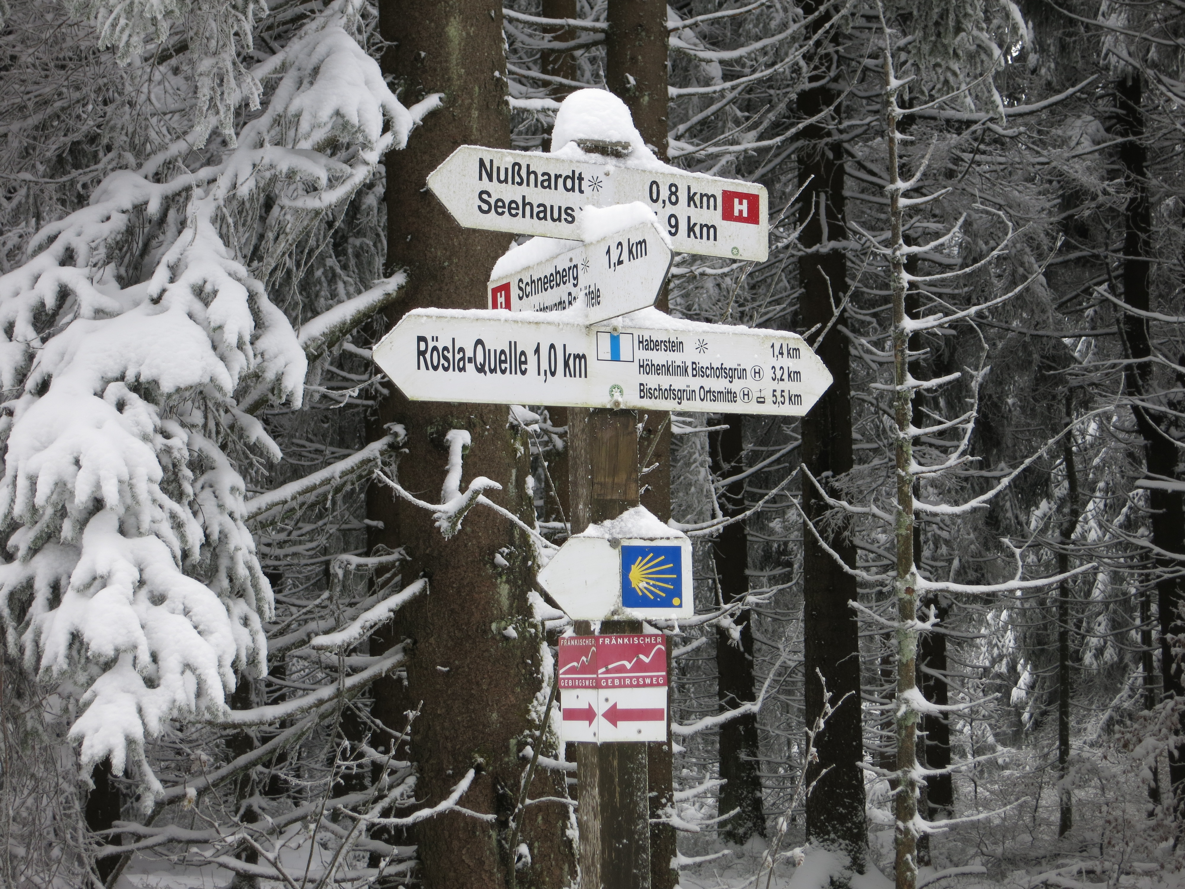 Hiking path signs in Fichtelgebirge, Bavaria